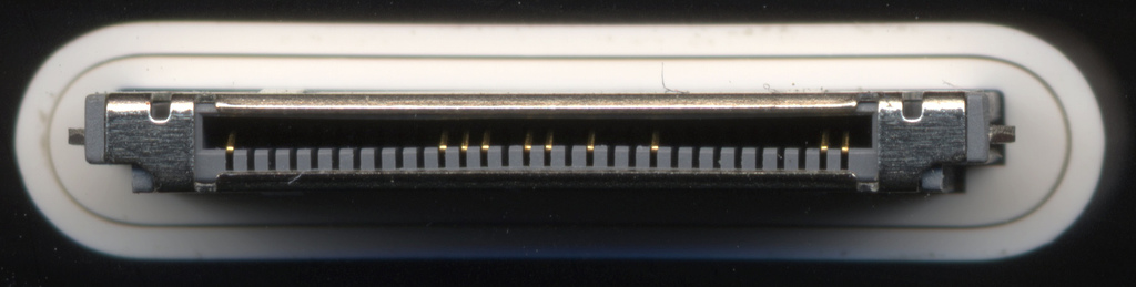 This is the dock connector on the iPod Sport Kit receiver. Pin 1 is on the left and pin 30 is on the right. Based on the pinout information I have, the pins implemented are, from left to right: Ground, Ground, Serial TX (TX from the iPod to the receiver), Serial RX, Ground, Ground, +3.3V (from iPod), Accessory Indicator, Ground, Ground. The accessory indicator pin has a resistance of 800Kohm to ground.